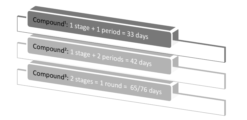 Compound ranges at ICHIMOKU